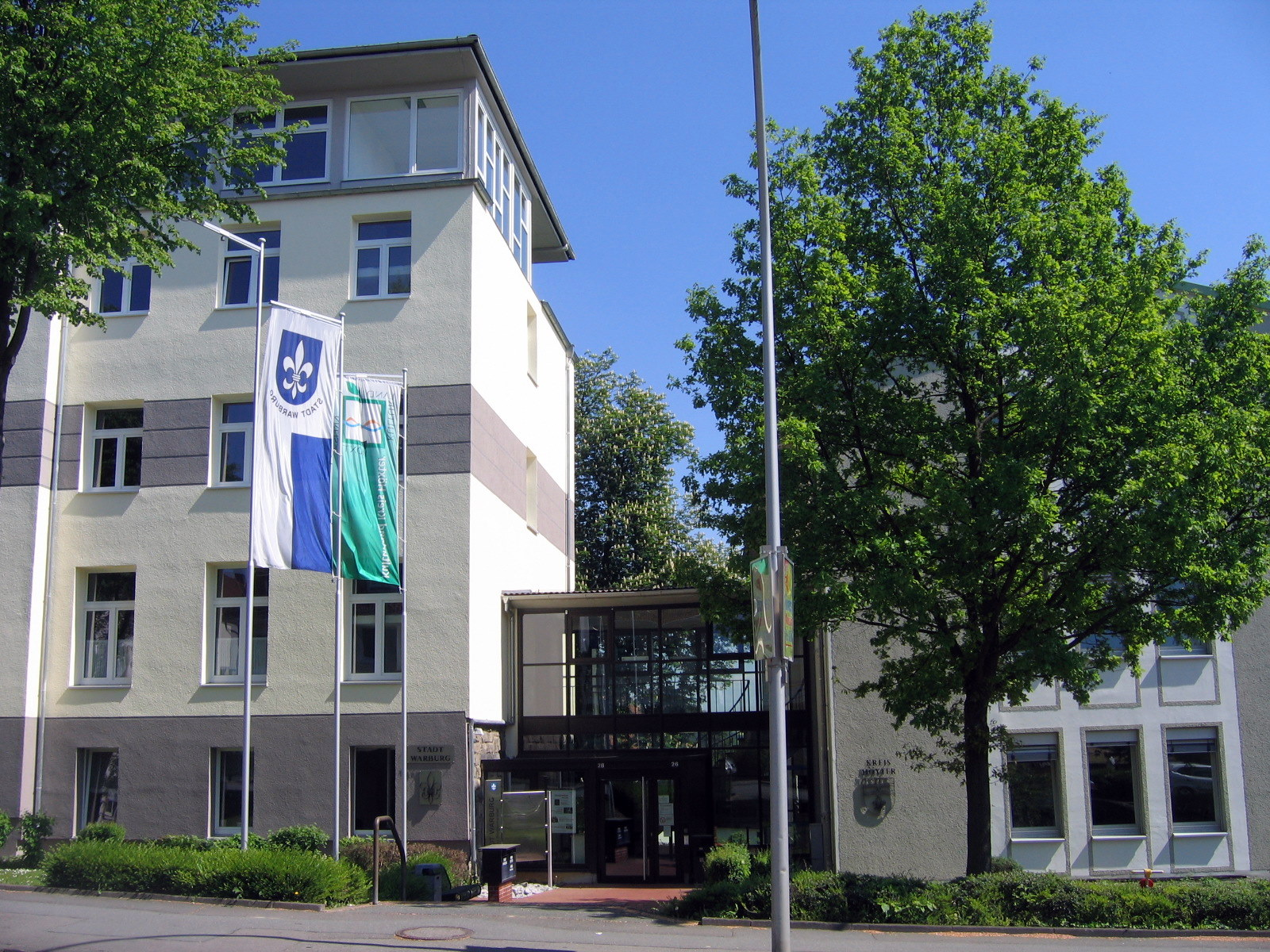 The city council of Warburg.